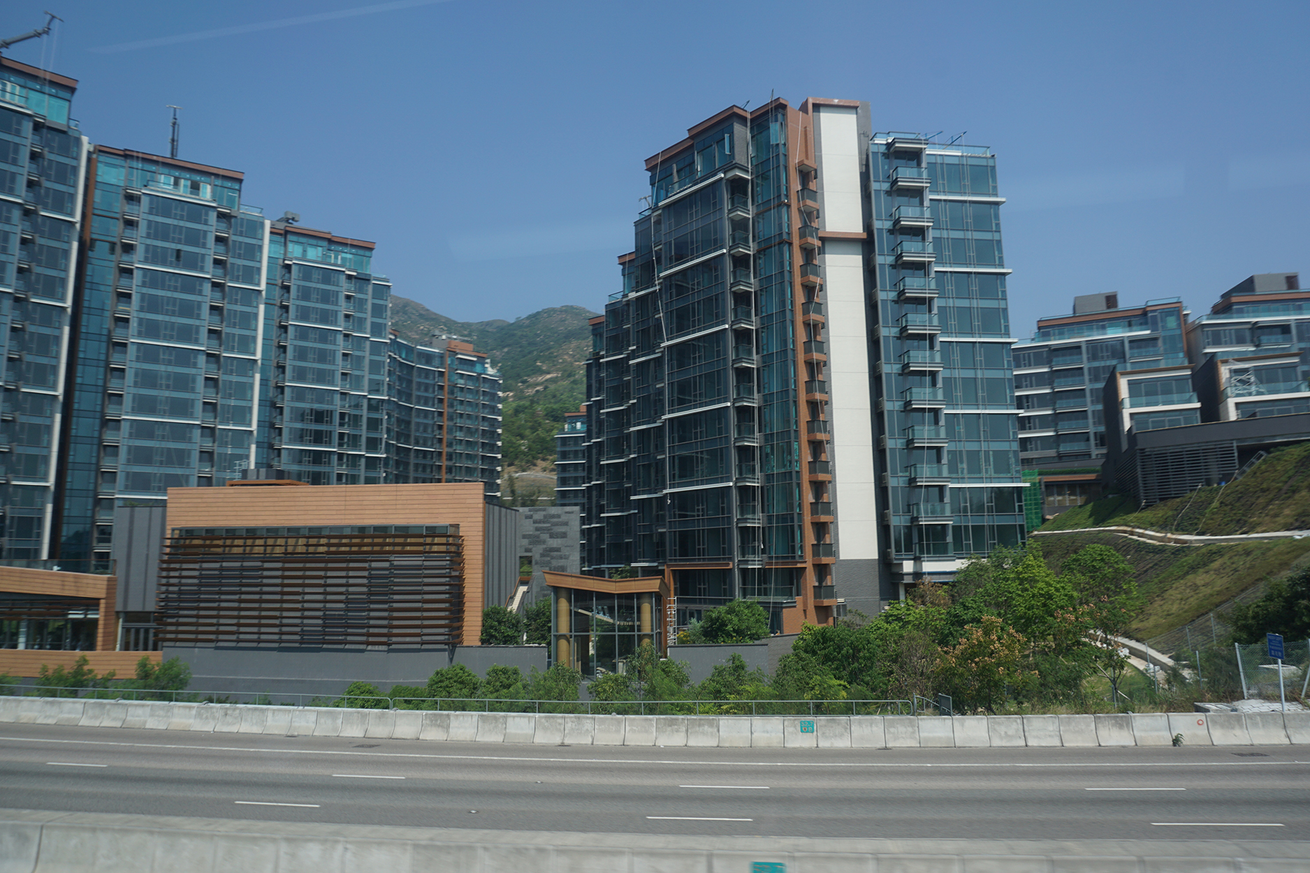 The Bloomsway in So Kwun Wat, Hong Kong.